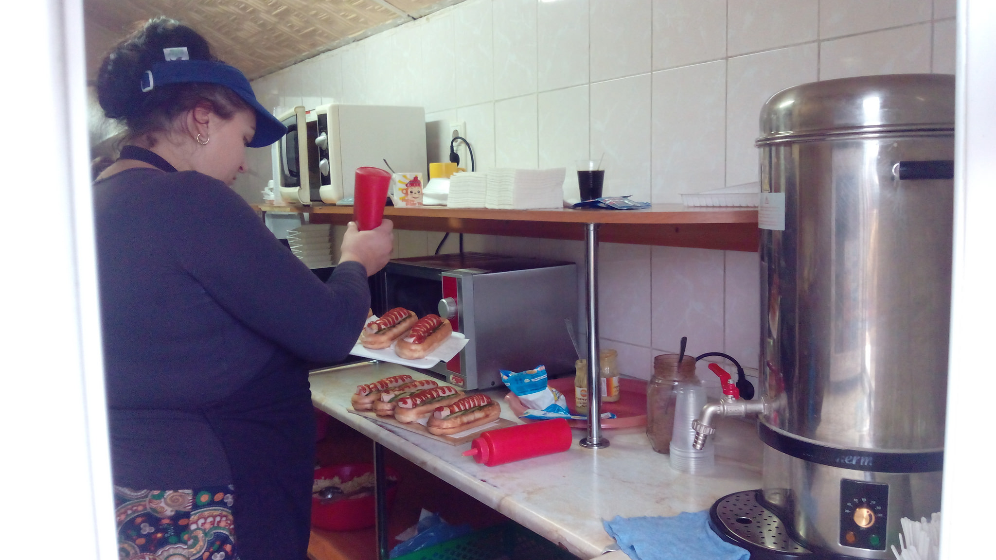 "Лодачкі" адна з папулярных мясцовых страваў. Гатаванне